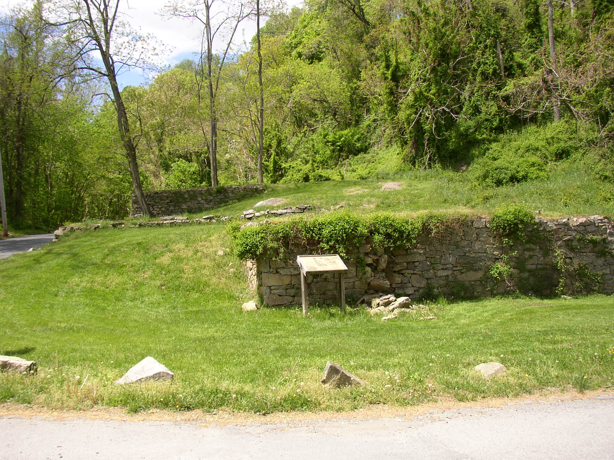 Foundation of former hotel in Lapidum, Maryland. Added for article on subject.